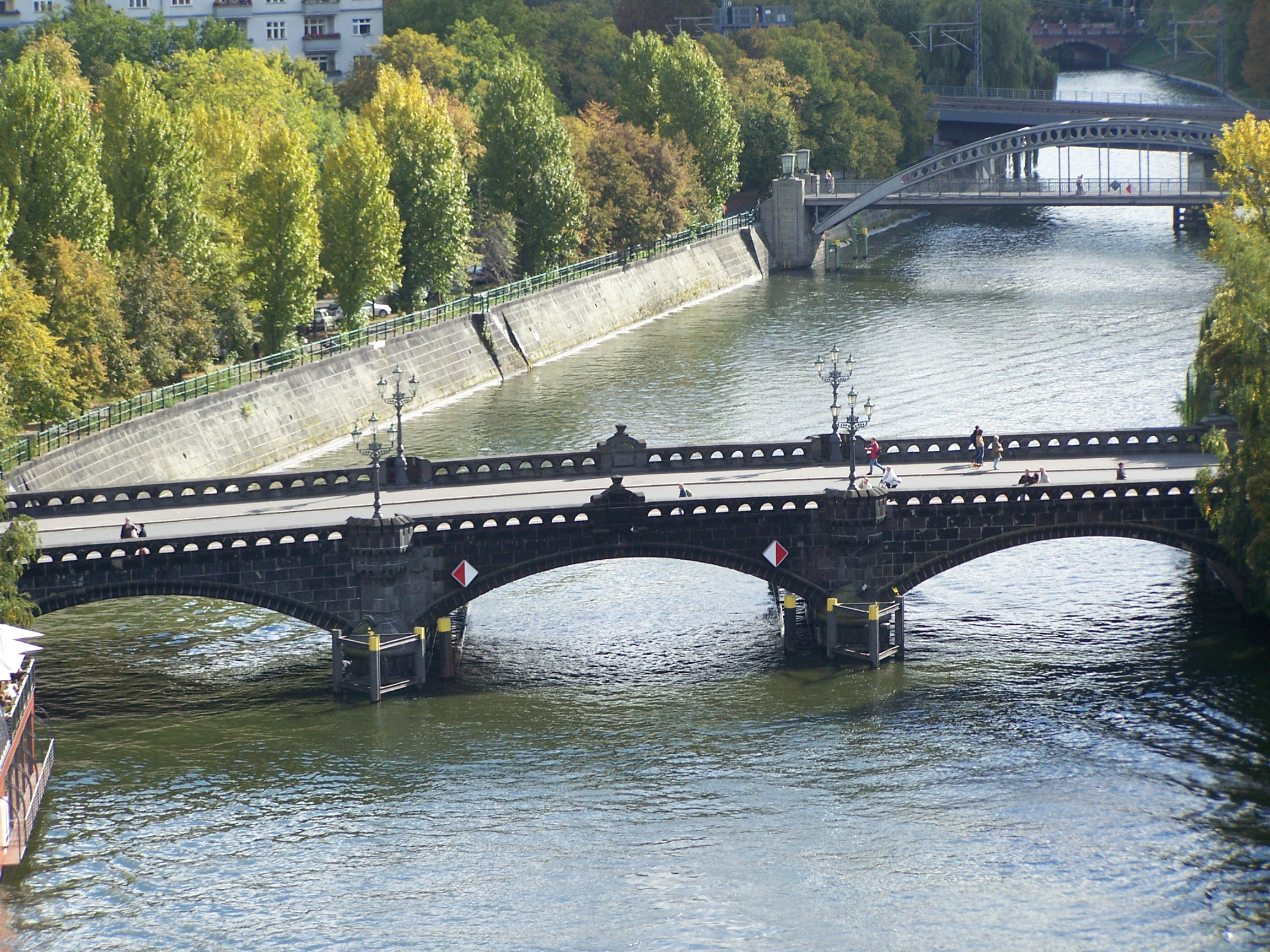 The bridge "Moabiter Brücke" seen from the Sorat Hotel in Berlin, Germany. In the background the Gerickesteg.